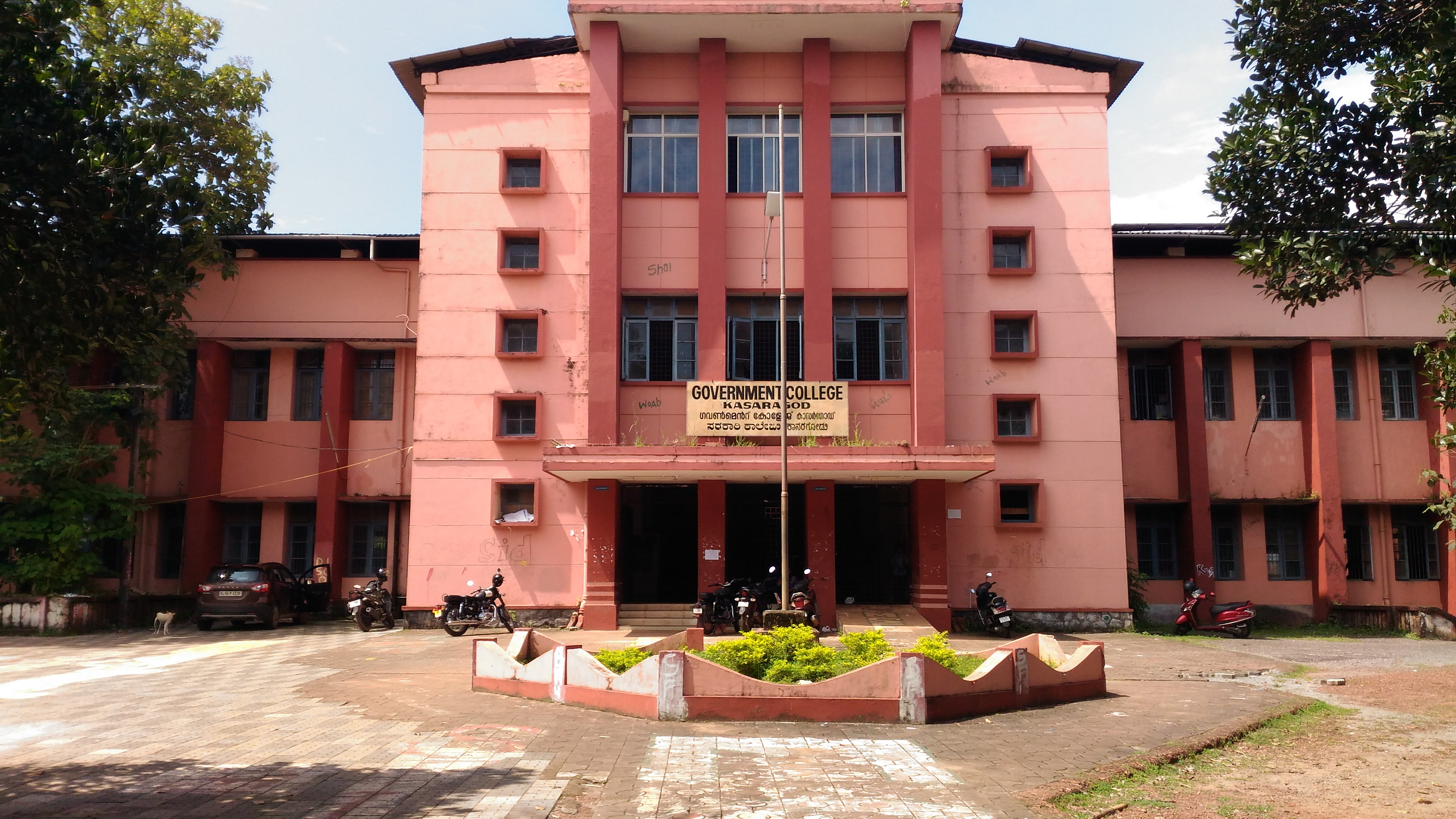 Government_college_kasaragod_ Front view